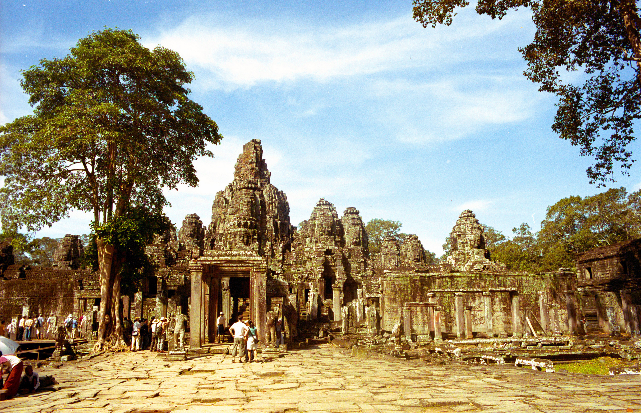 Bayon temple